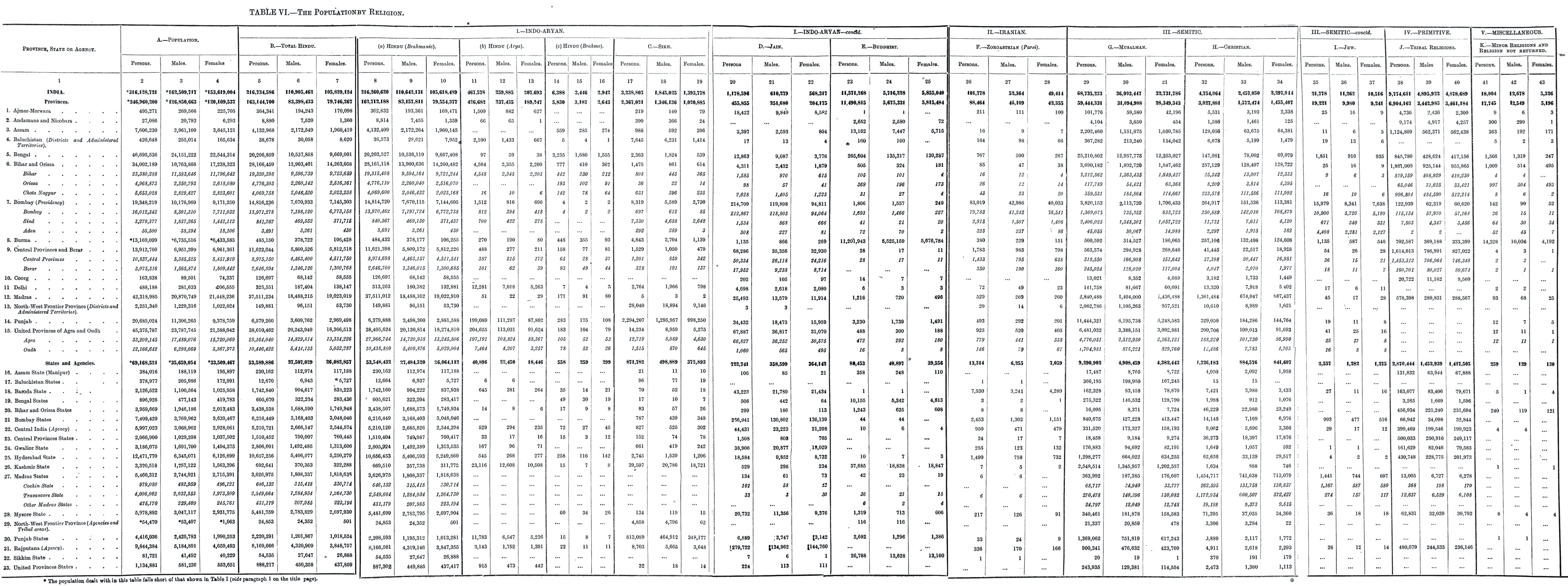 Census of British India by religion, 1921